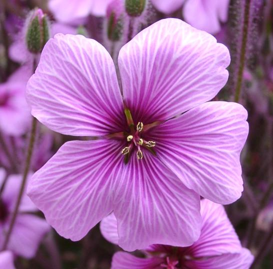 Geranium maderense, or Madeira cranesbill.